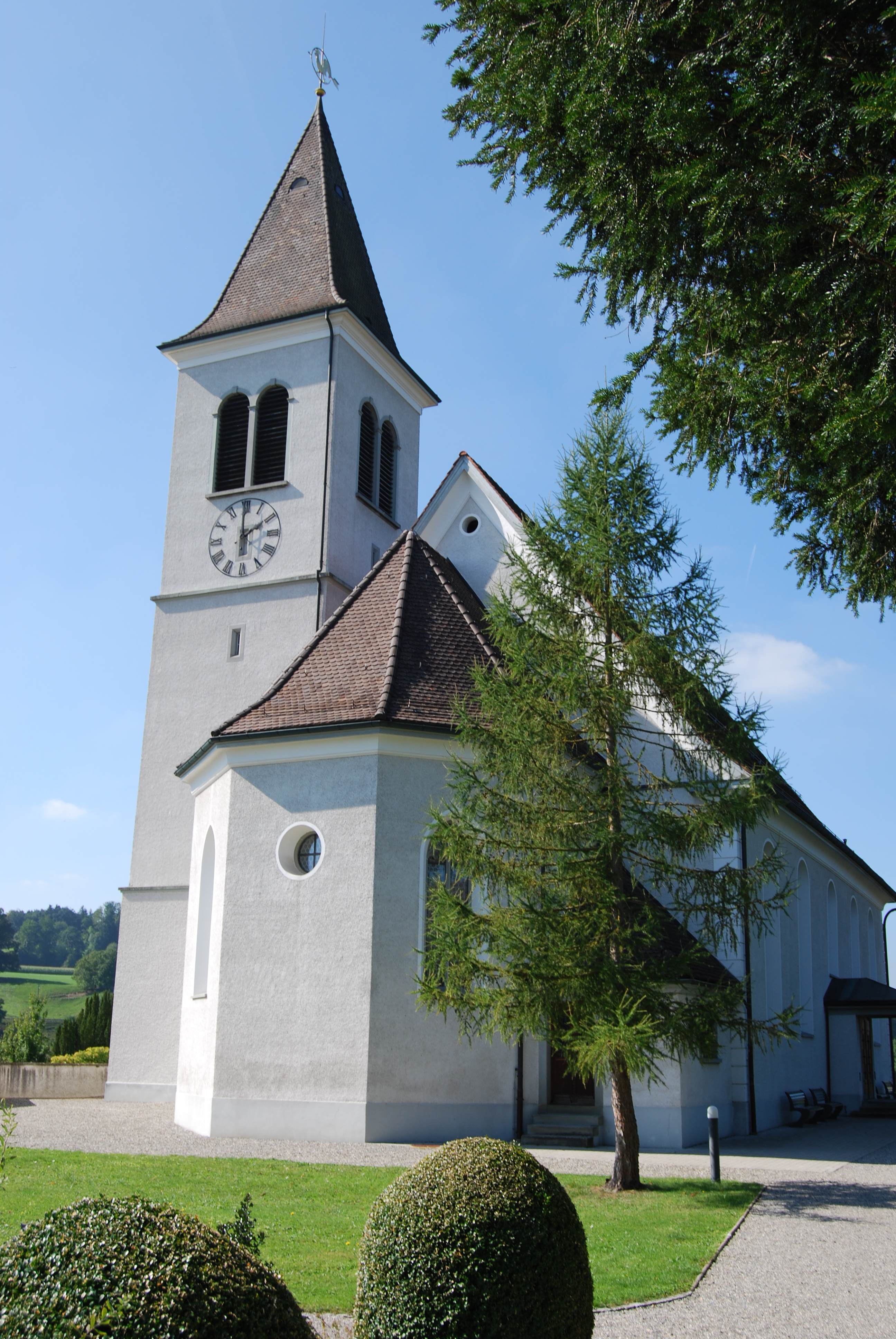 Protestant St. Gallus church at Bussnang (KGS n. 10940), canton of Thurgovia, Switzerland